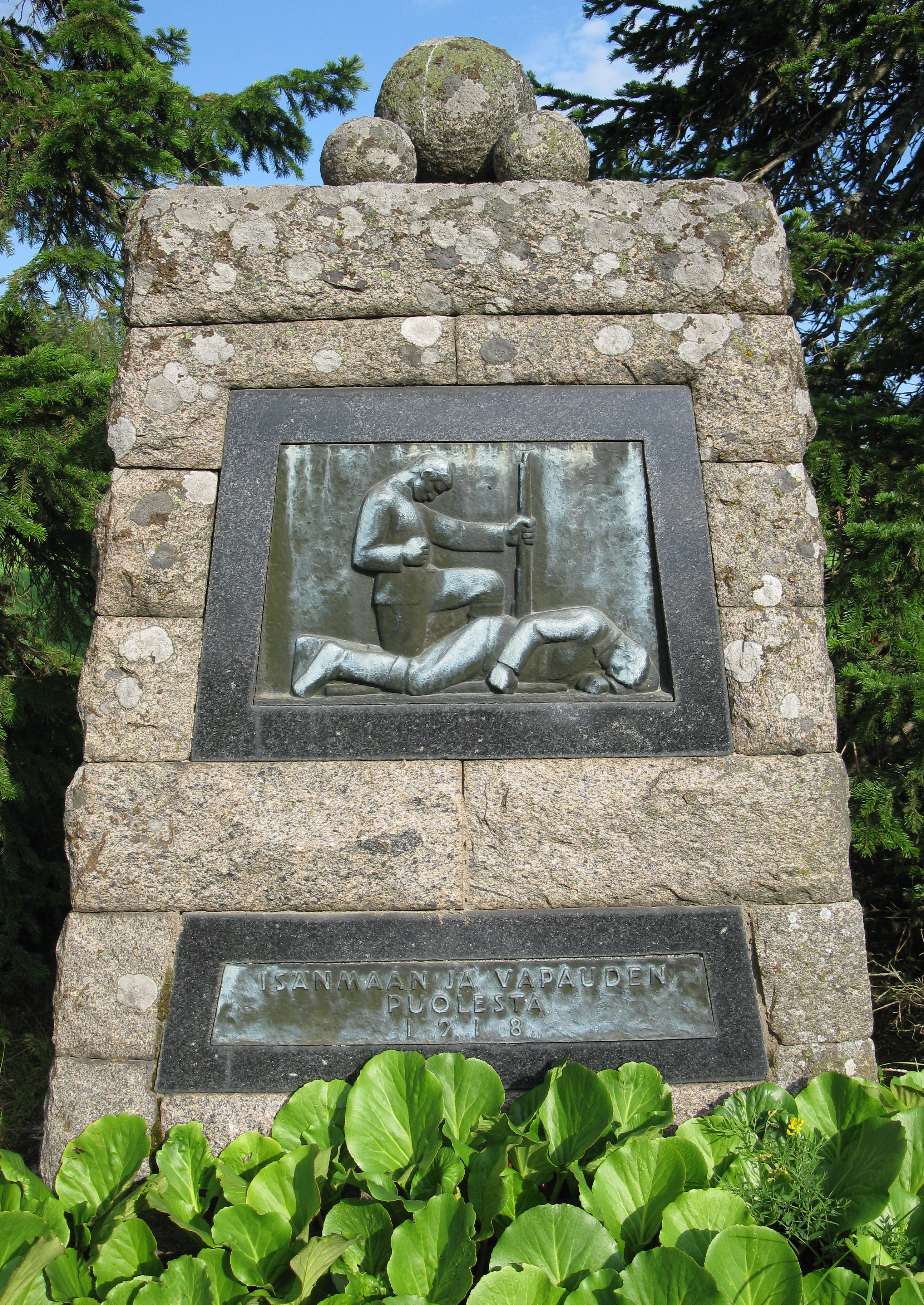 Memorial stone for the battle of Lautela 22.4.1918 in Finnish Civil War. The relief was designed by the finnish sculptor Felix Nylund (1878-1940).